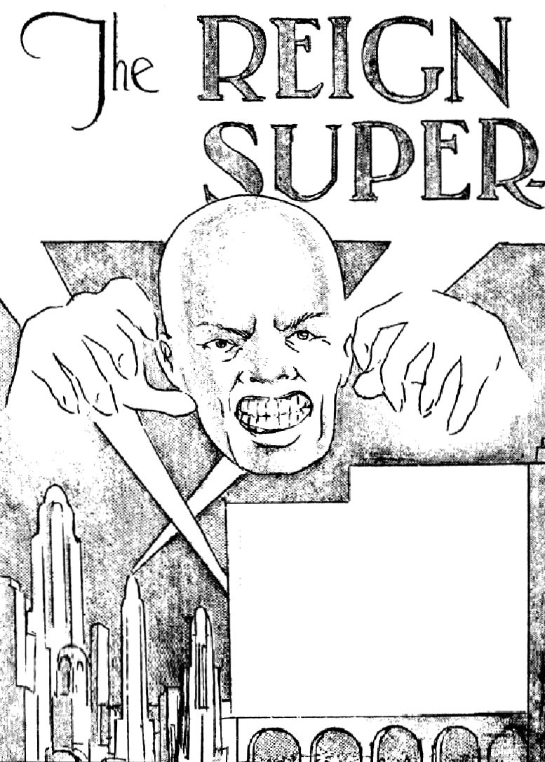 pg 4 of The Reign of the Super-Man. This work is in the public domain because it was published in the United States between 1923 and 1963 and although there may or may not have been a copyright notice, the copyright was not renewed. Unless its author has been dead for the required period, it is copyrighted in the countries or areas that do not apply the rule of the shorter term for US works, such as Canada (50 pma), Mainland China (50 pma, not Hong Kong or Macao), Germany (70 pma), Mexico (100 pma), Switzerland (70 pma), and other countries with individual treaties. See Commons:Hirtle chart for further explanation.